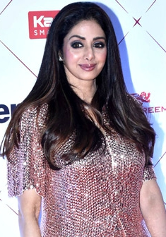 Sridevi at the 2018 HT Style Awards (cropped from the original).